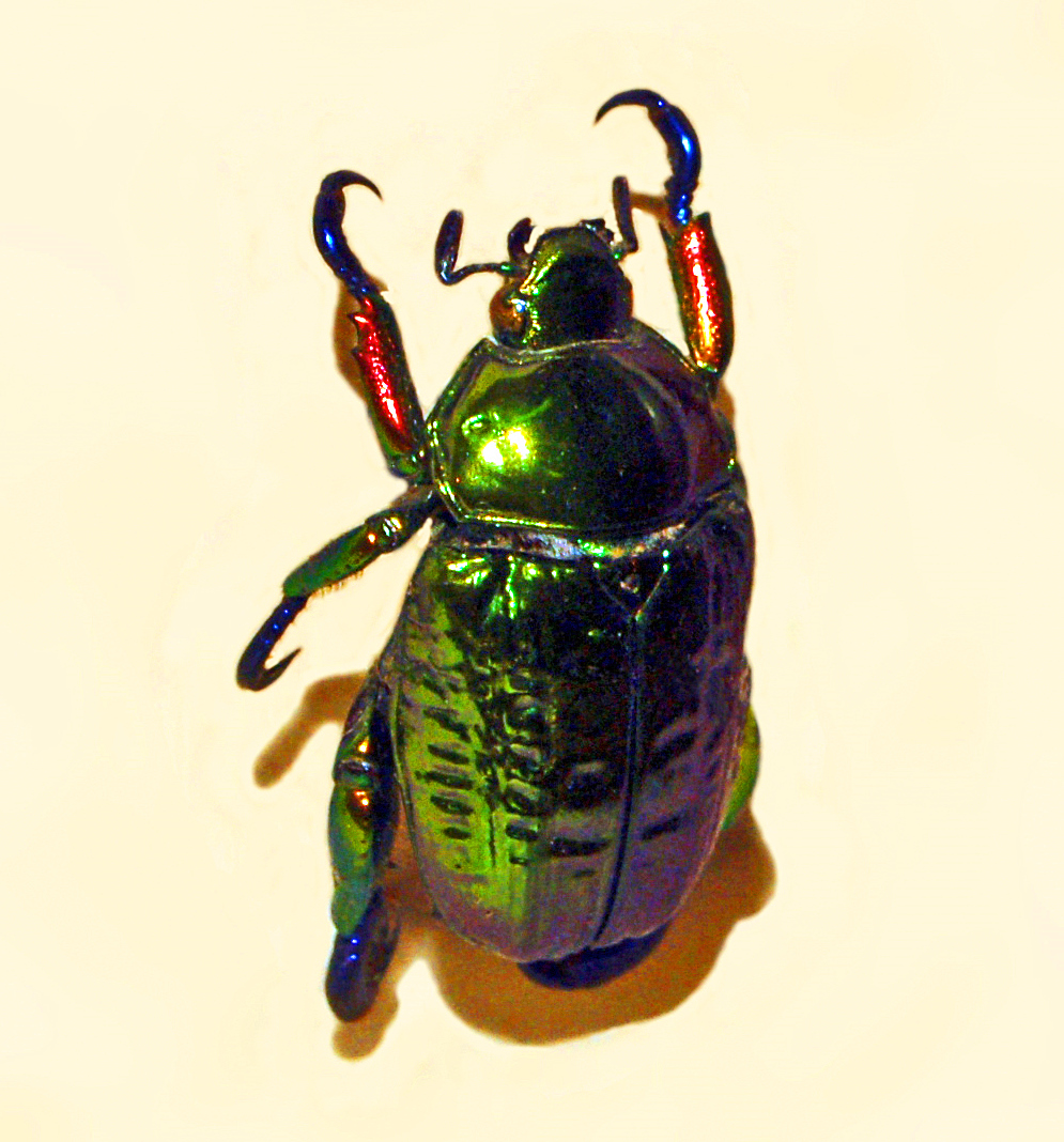 Pelidnota cyanitarsis from Brazil